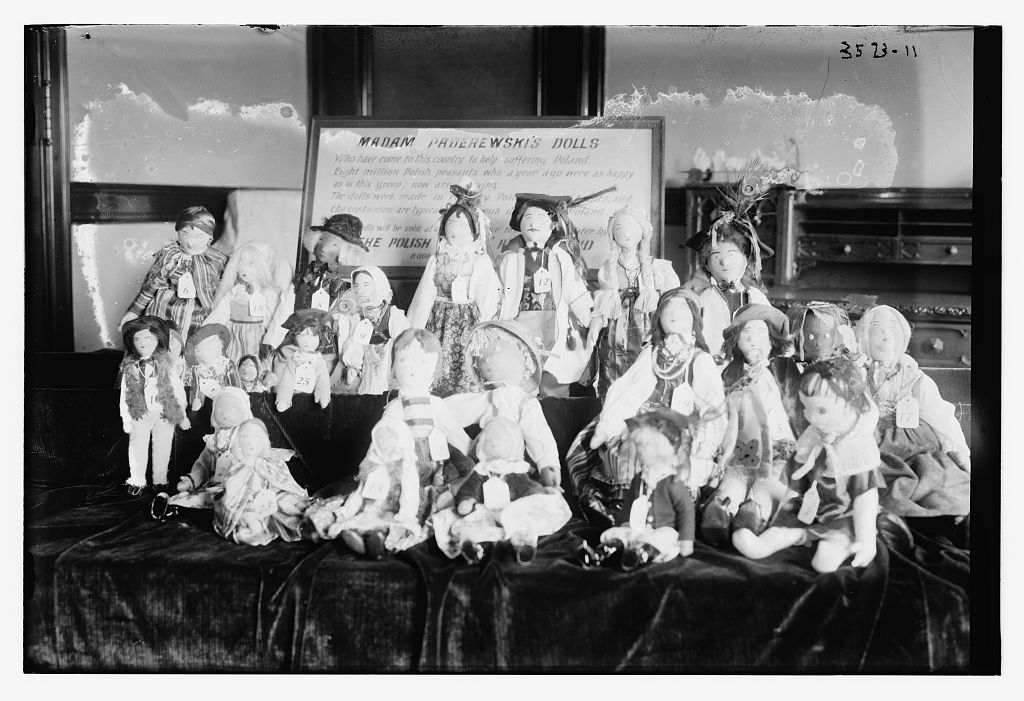 Photograph shows dolls made by Polish refugees in Paris and sold to benefit the Relief Fund for Polish War Victims by Helena Maria Paderewska (1856-1934), wife of Polish pianist and politician Ignacy Jan Paderewska. (Source: Flickr Commons project, 2013)